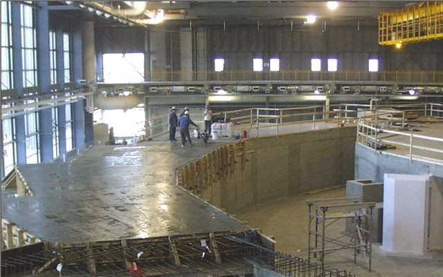 Construction of the shielding walls inside the CLS building in 2001